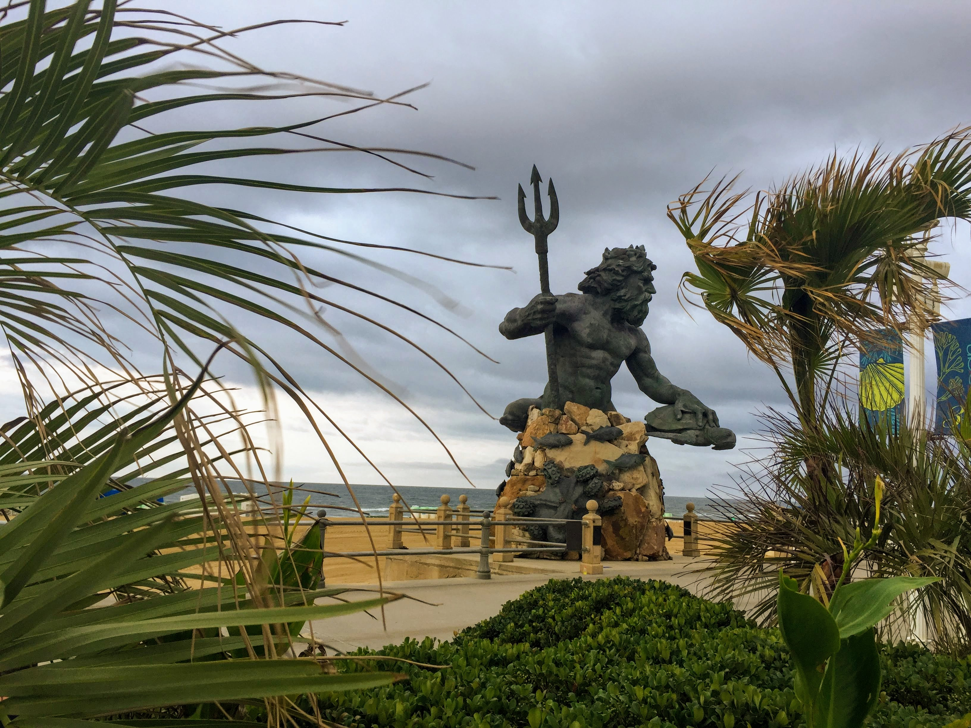 Sculpted by Paul DiPasquale, this 34' tall bronze monument is centered on the Virginia Beach boardwalk. According to the artist, the sculpture was intended to remind people of the ocean environment and damage done to it from pollution and other human activities.